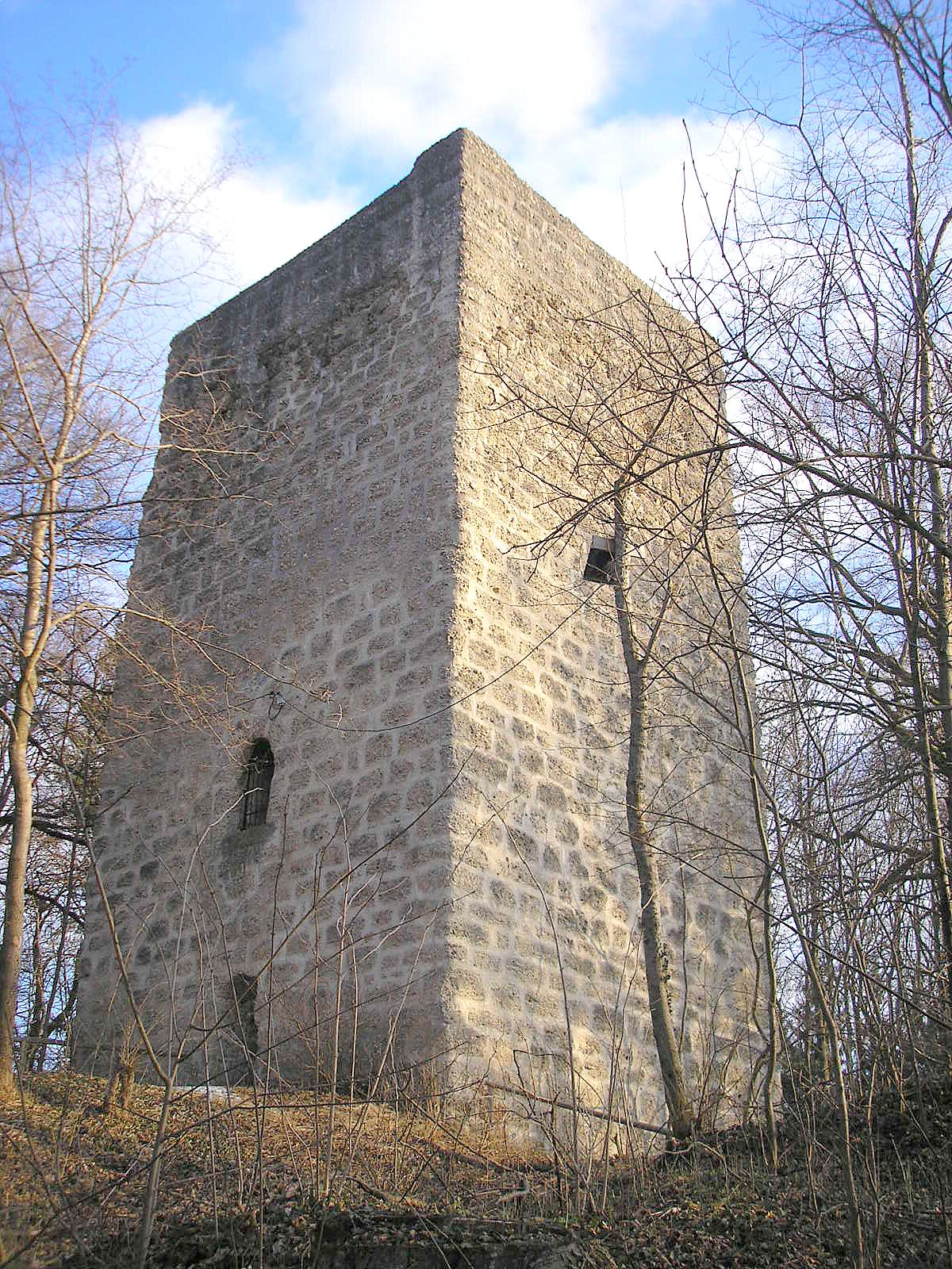 Helmishofen castle near Markt Kaltental (Landkreis Ostallgäu, Bavaria, Germany). The keep from the north west